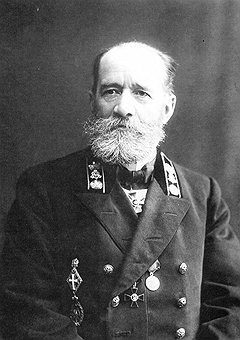 Sreznevsky V.I.